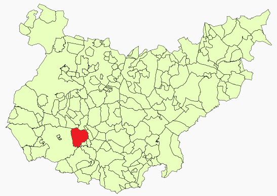 Burguillos del Cerro